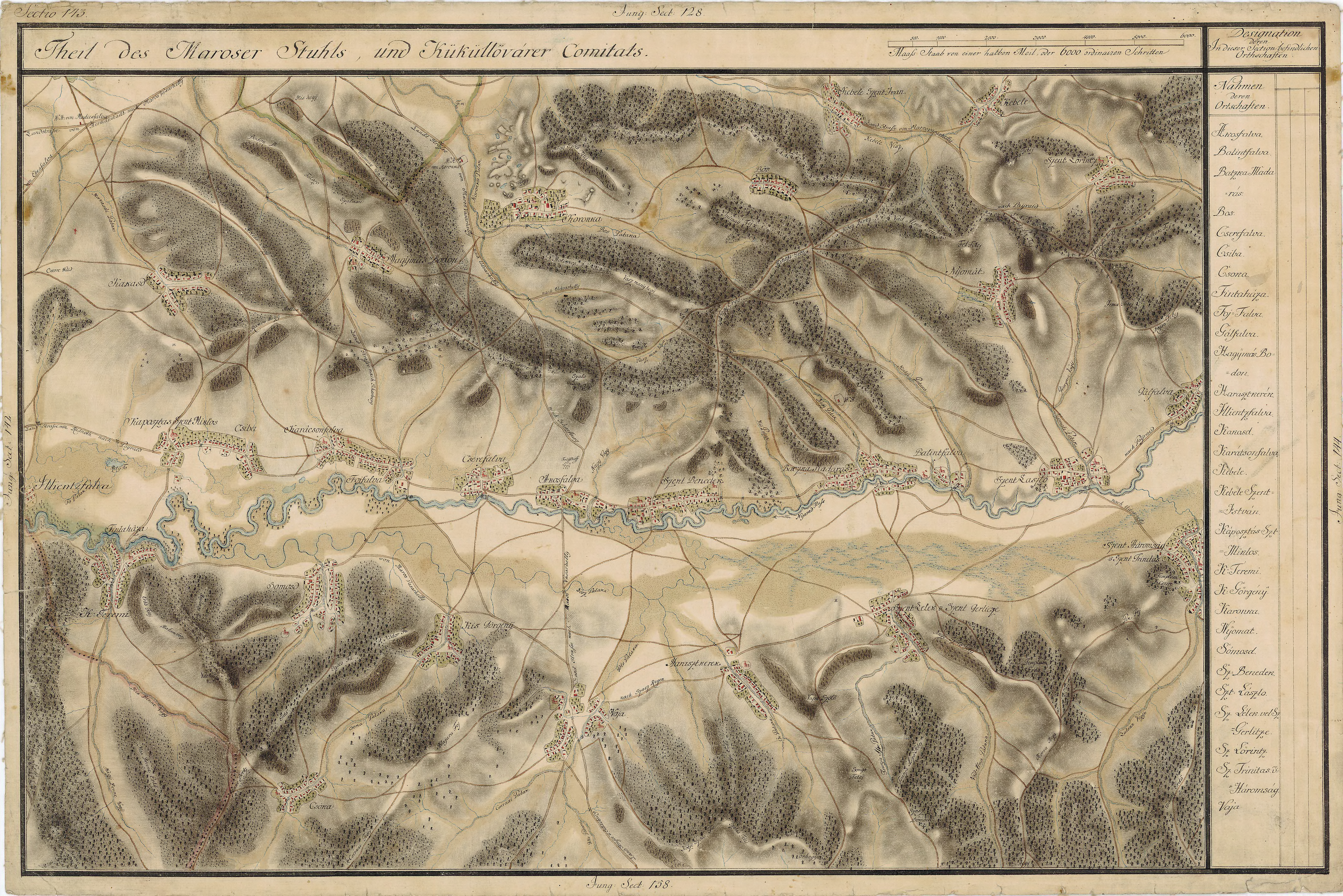 Grand Duchy of Transylvania, 1769-1773. Josephinische Landaufnahme pg.143